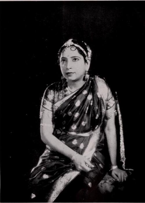 T. P. Rajalakshmi in "Nandkumar" a Tamil picture produced by Pragati Pictures.